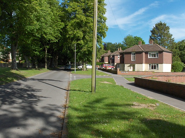 Gaza Road, Bulford Camp At its junction with Auckland Road.